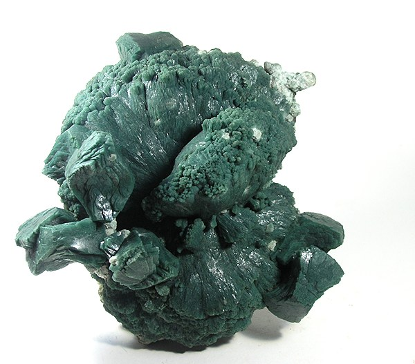 Celadonite, Heulandite-Ca Locality: Jalgaon District, Maharashtra, India (Locality at ) Size: large cabinet, 16 x 14.5 x 7 cm Heulandite included by Celadonite A huge bowtie crystal of heulandite to 15 cm across forms the background for smaller crystals, all of which have been turned a deep green by included celadonite. The smaller crystals display a brighter luster although the big crystal does have matte finish luster. For size but also overall appearance, this is one of the best large examples I have seen of these are and now-classic stilbites.